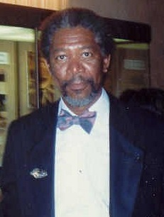 Morgan Freeman, with his wife Myrna Colley-Lee and mother, leaves the 62nd Annual Academy Awards, 3/26/90 - Permission granted to copy, publish, broadcast or post but please credit "photo by Alan Light" if you can